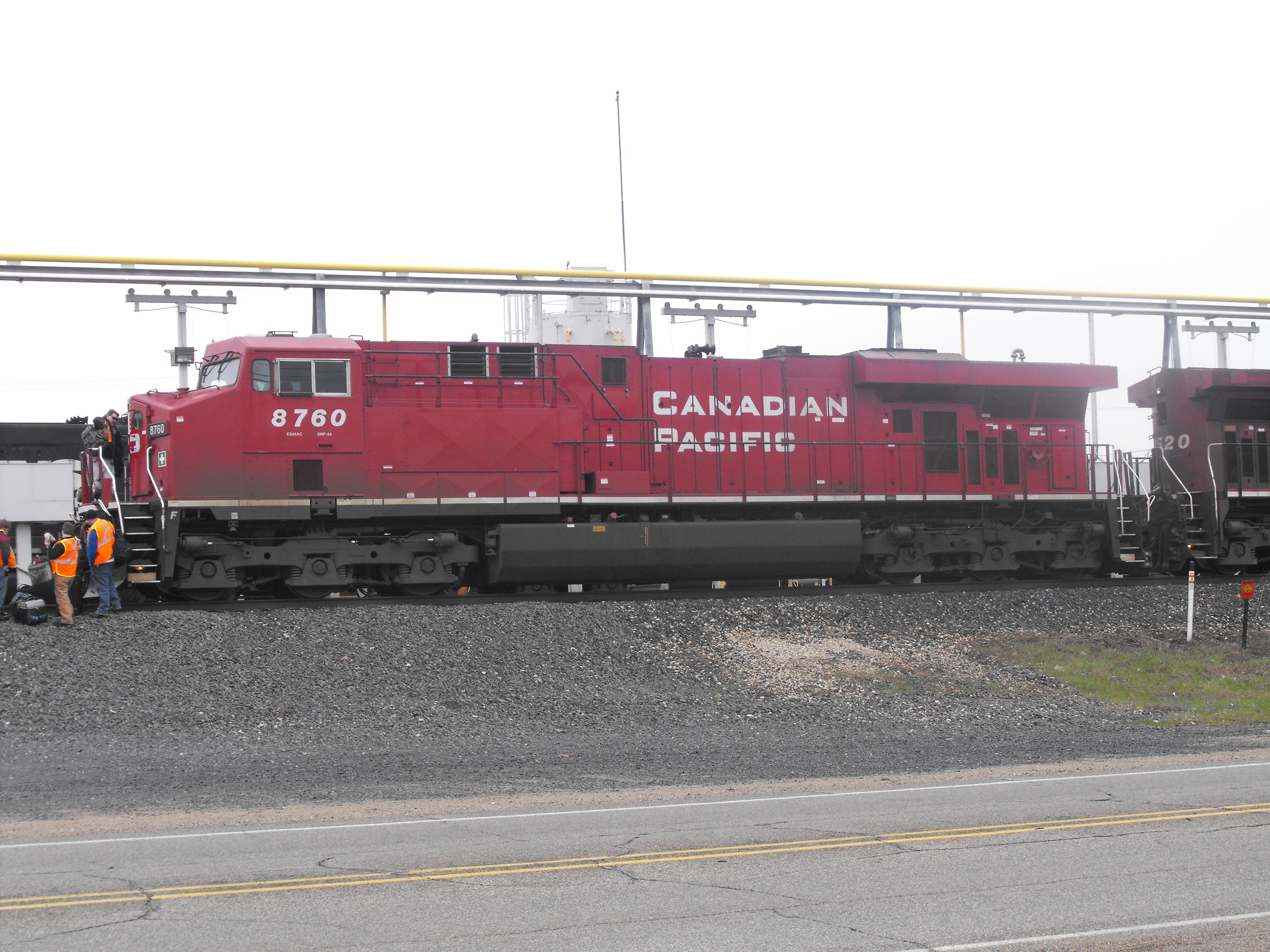 CP Loco No.8760 Elkhart, Indiana